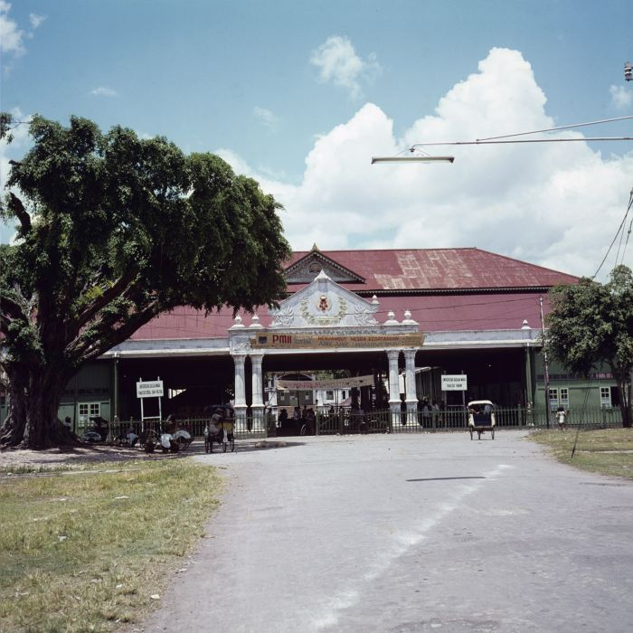 Entrance of the Gadjah Mada University's Faculty of Law near the Sultan's palace